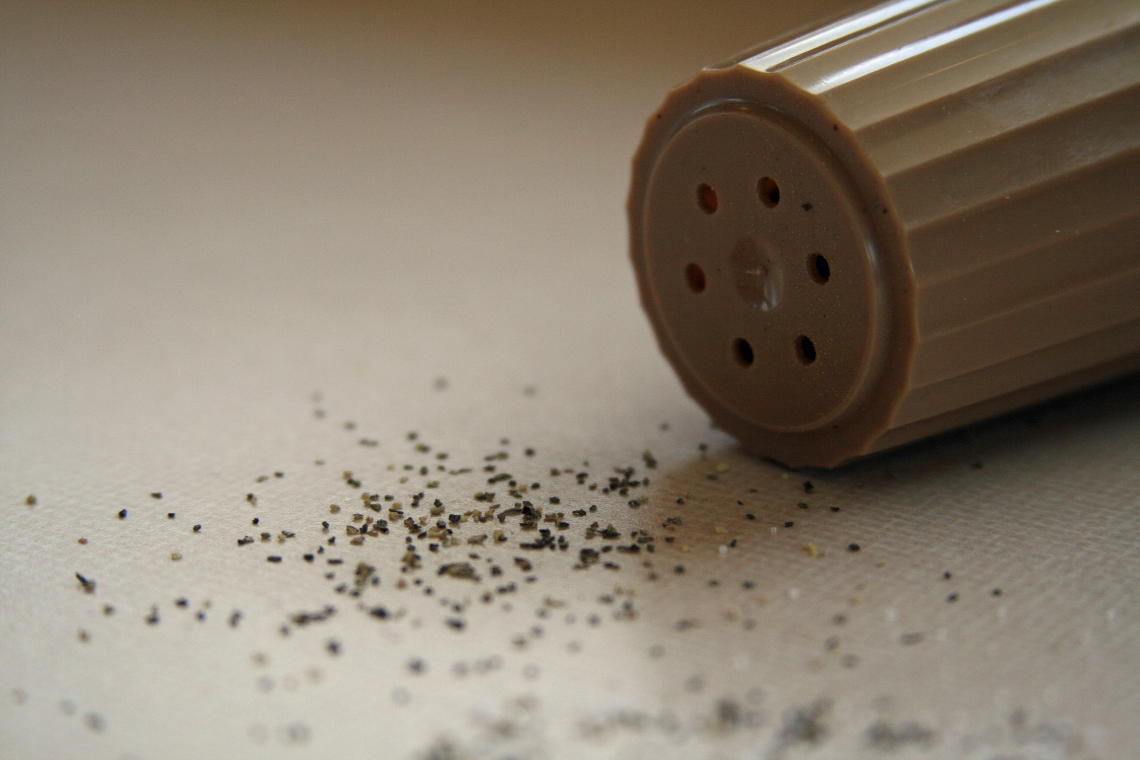 An example of ground black pepper.